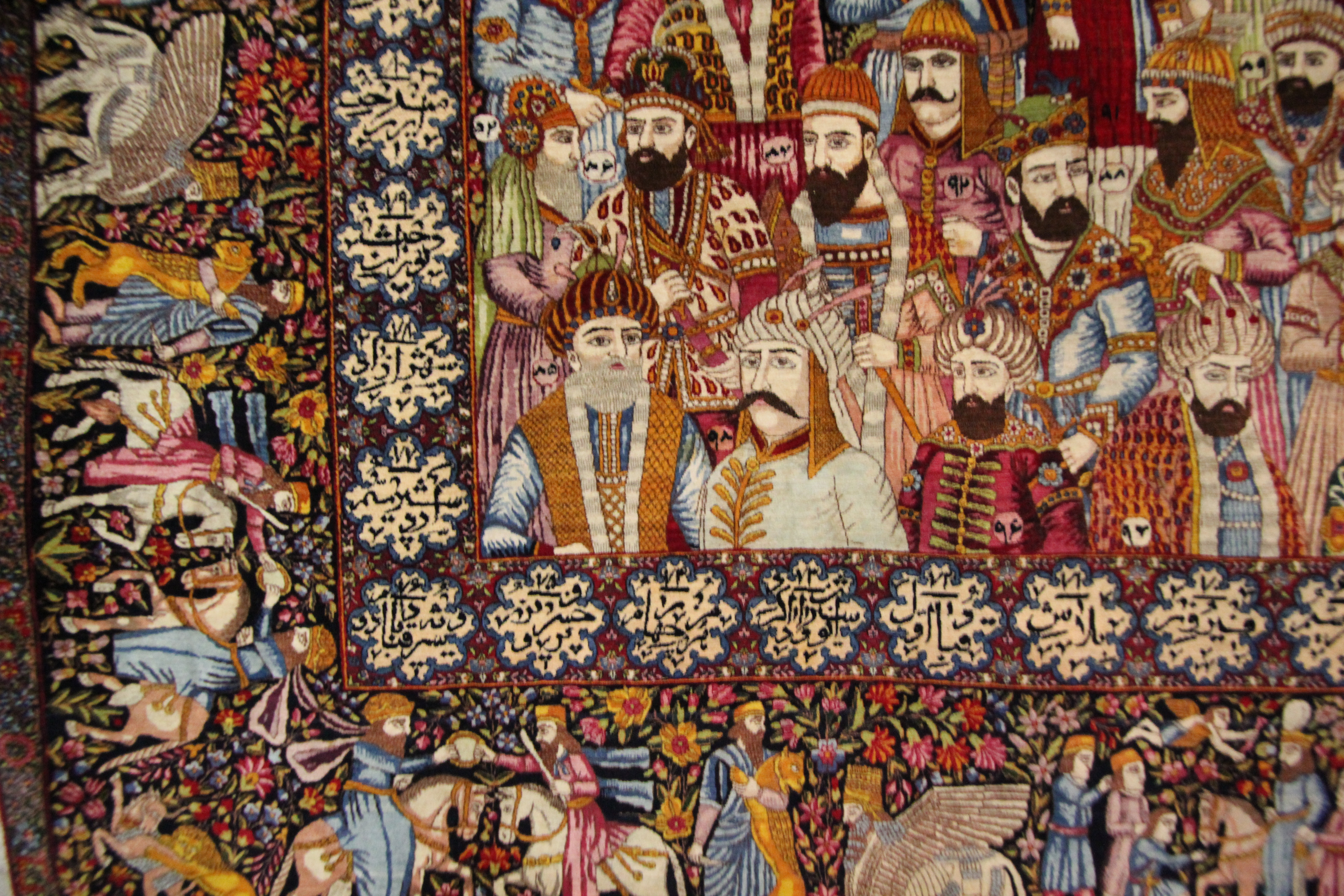 Carpet Museum of Iran